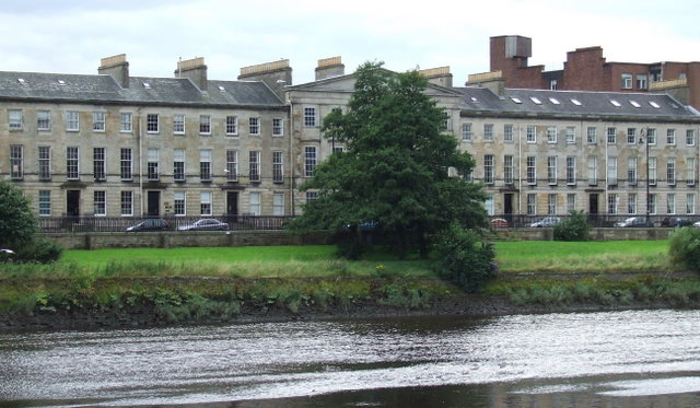 Carlton Place Viewed from the Clyde Walkway at Clyde Street.